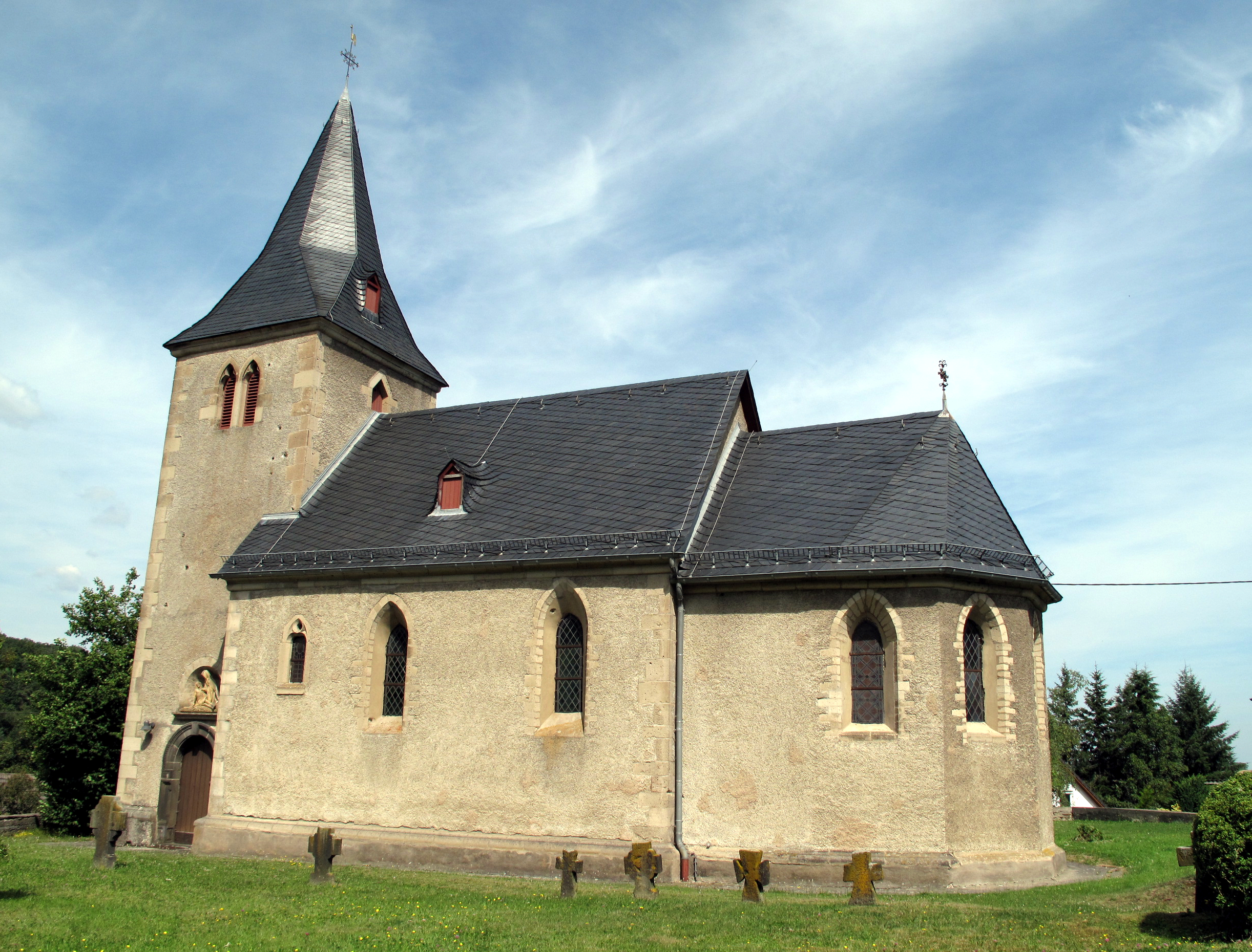 Blasweiler (Heckenbach), church